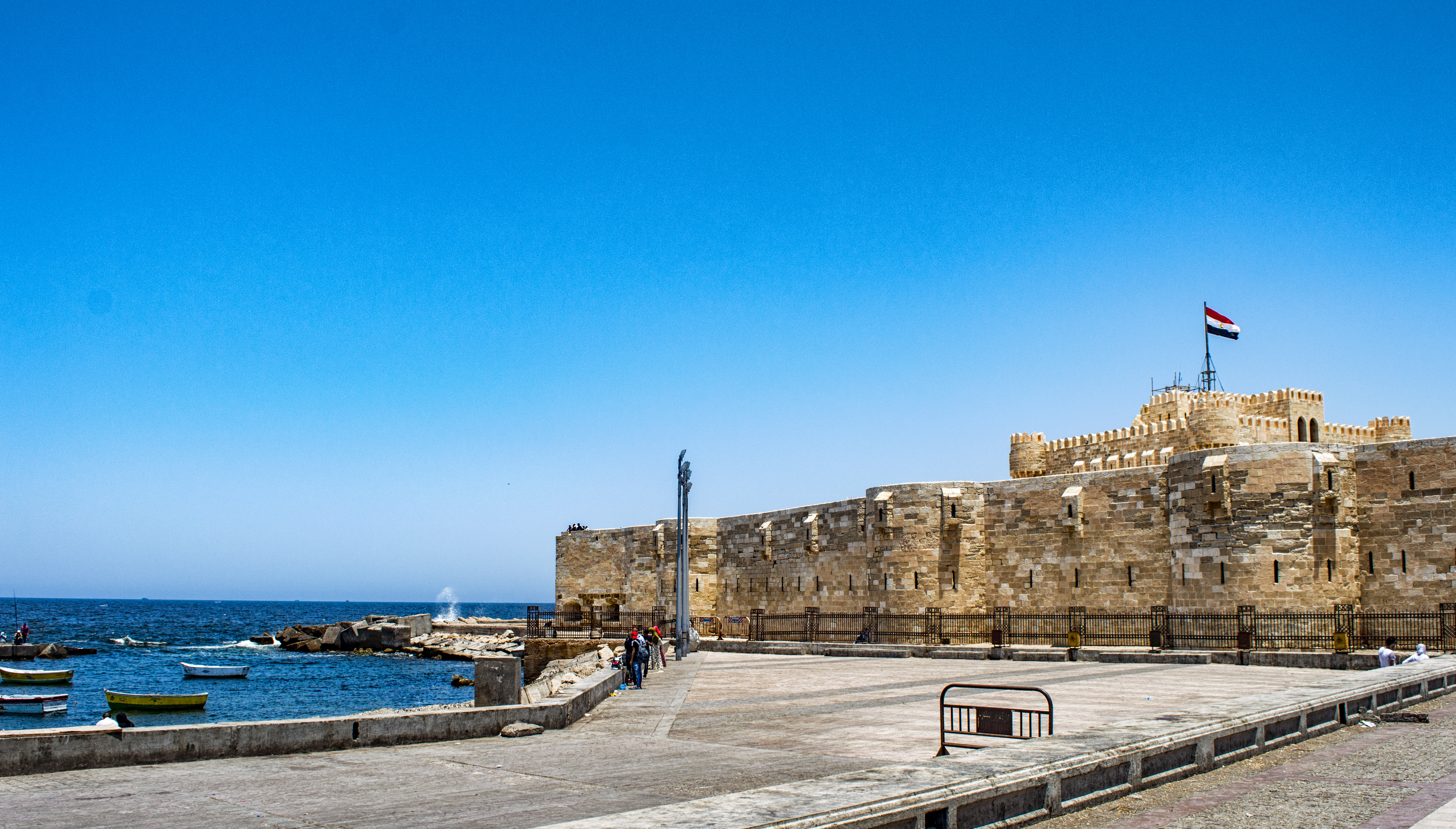 View of the Citadel of Qaitbey in Alexandria, Egypt